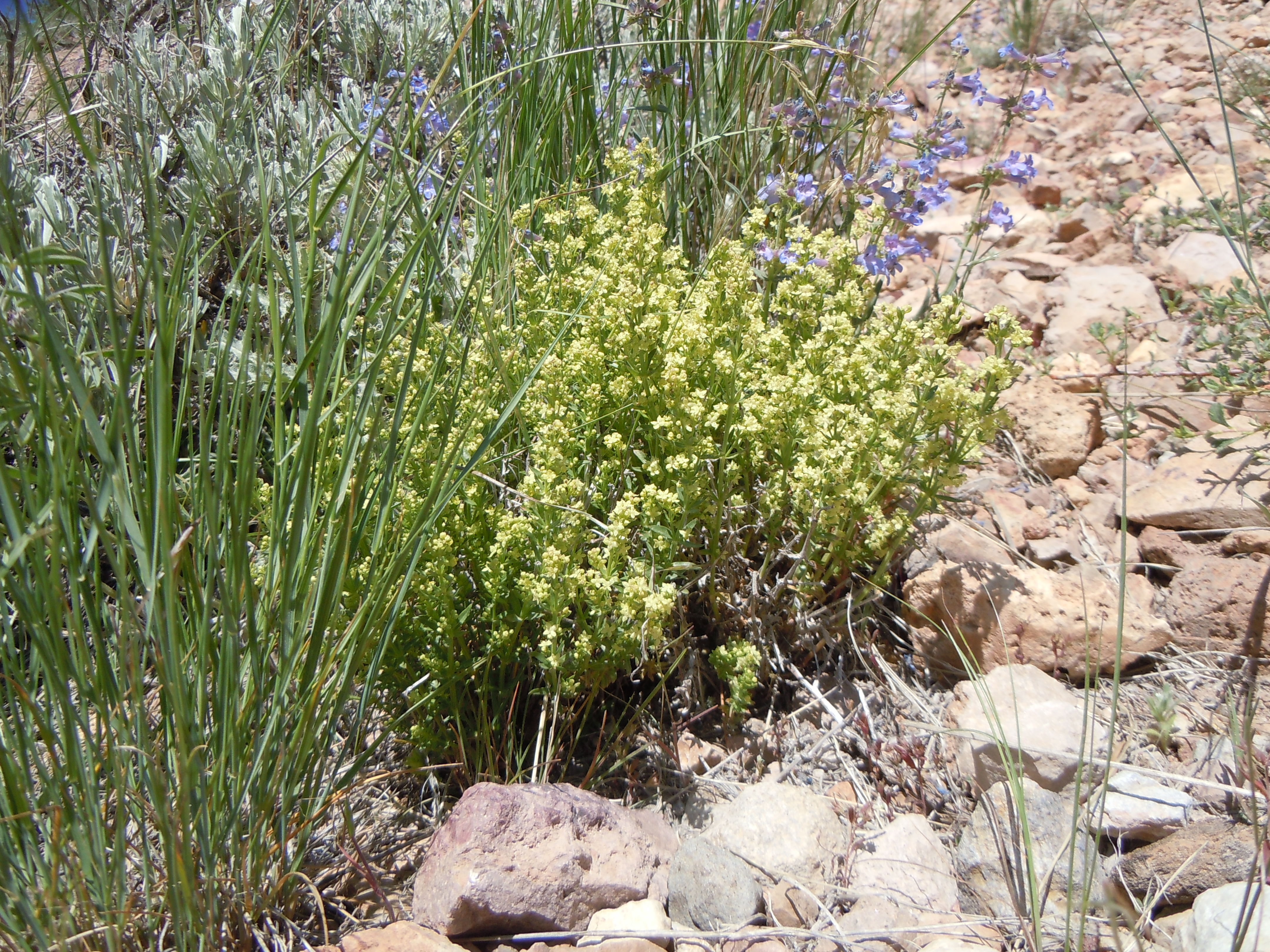 Galium multiflorum is most common along roadsides and on talus slopes of this area in otherwise open dry sites in or adjacent to sagebrush steppe.